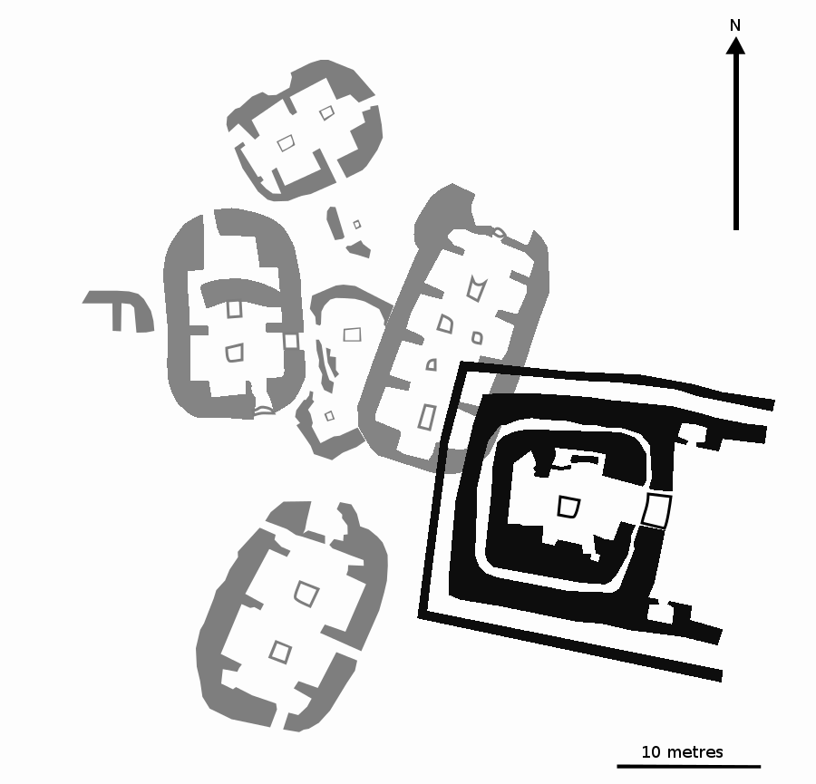 Plan of the Ness of Brodgar with structure #10 highlighted.